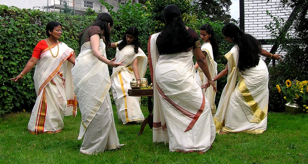 "കൈതപ്പൂ മണമെന്തേ ചഞ്ചലാക്ഷീ... " "Thiruvathira" from the Onam celebrations, Copenhagen Denmark For more on Onam